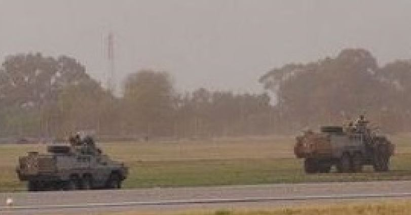 Ratel Infantry Fighting Vehicle AAD 2014